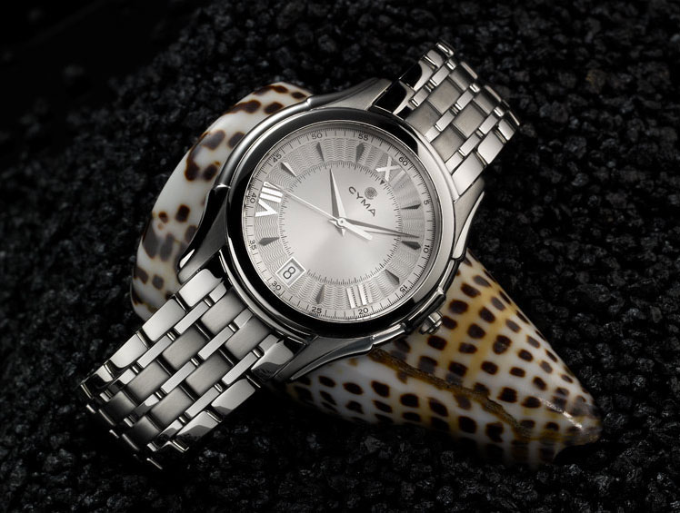 CYMA Nineteen-Forty watch